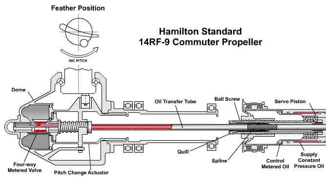 Cutaway view of Hamilton Standard 14RF-9 Propeller